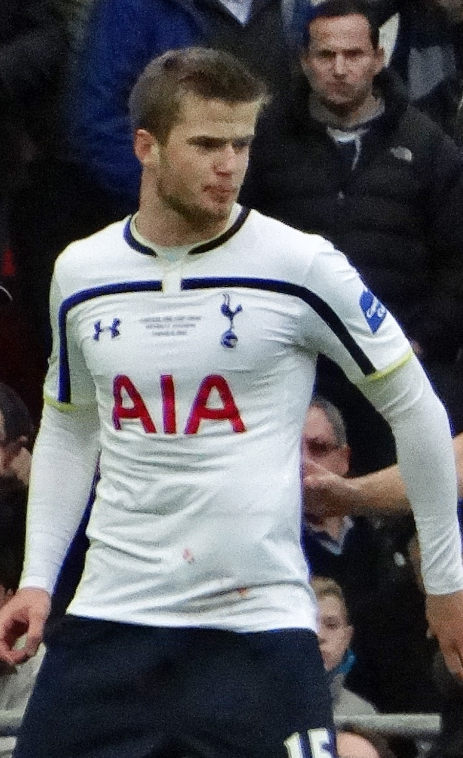 Eric Dier playing for Tottenham Hotspur against Chelsea at Wembley Stadium on 1 March 2015